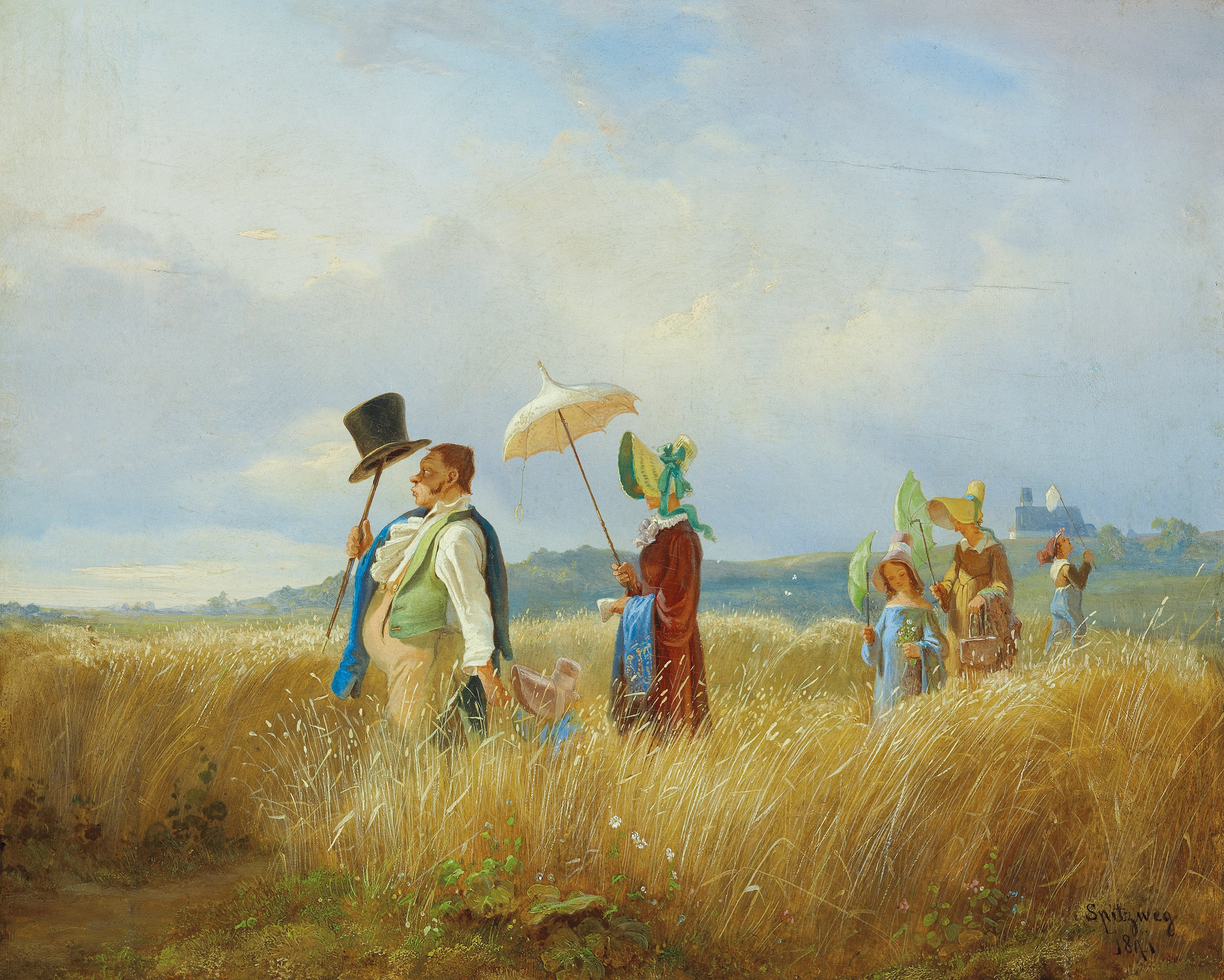 Der Sonntagsspaziergang. 53.2 × 41.3 cm. 1841. Oil on wood.